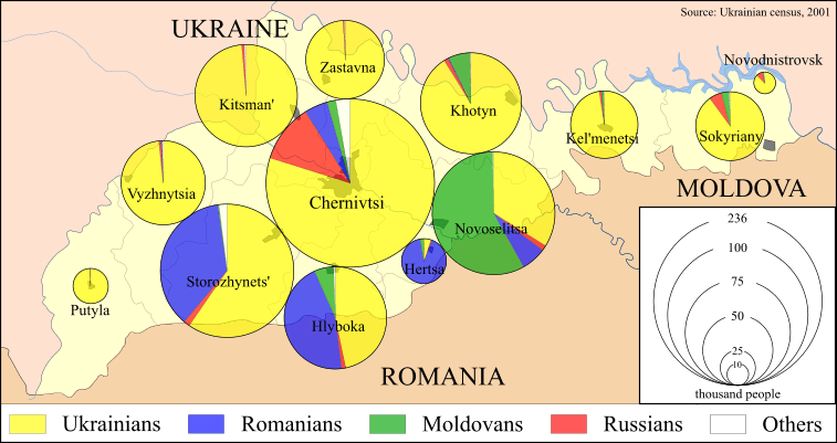 Graphical representation of ethnic division in the Chernivtsi Oblast of Ukraine, according to the Ukrainian Census (2001).